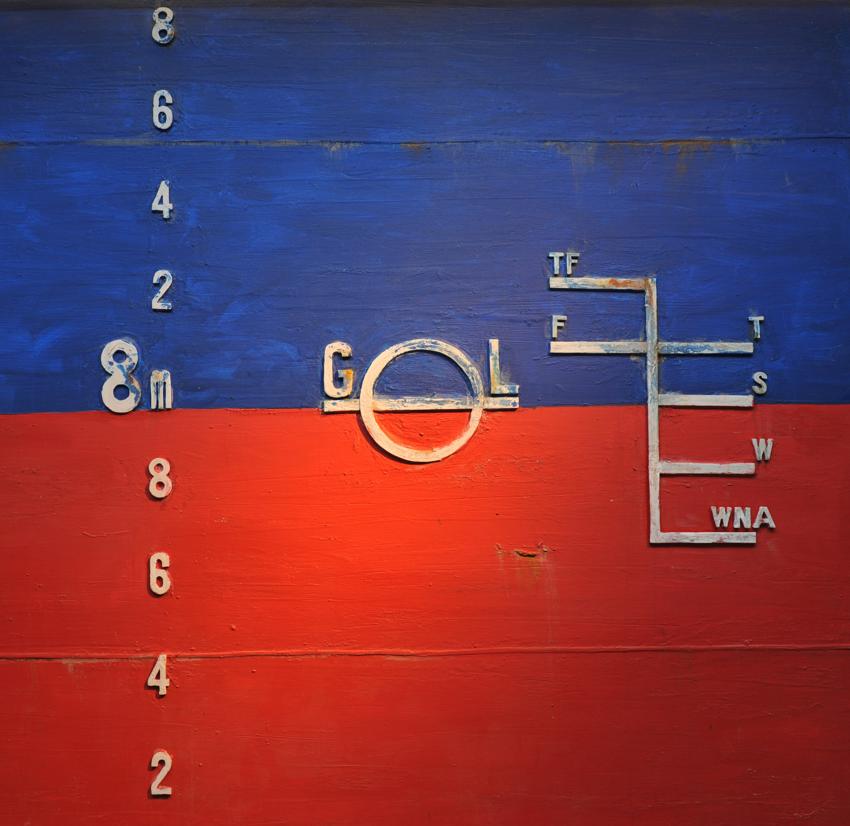 Model of plimsoll marks